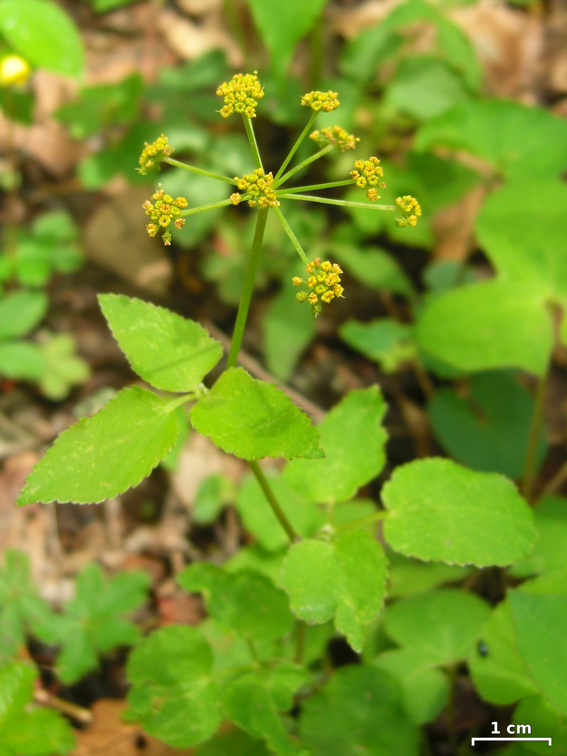 Snowbird Mountain, Pisgah N.F., North Carolina, 20110519